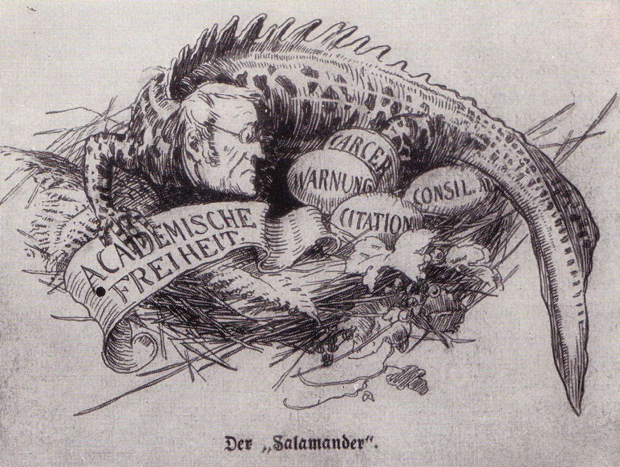 Caricature of the Bonn university judge von Salomon